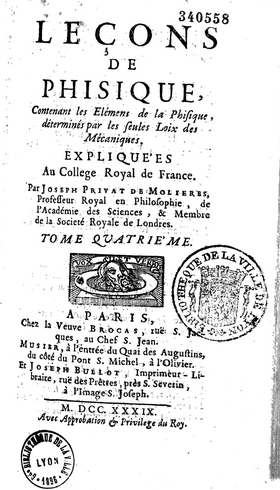 Frontpage of Leçons de Phisique (Volume 4th, 1739) by Joseph Privat de Molières (1677-1742)